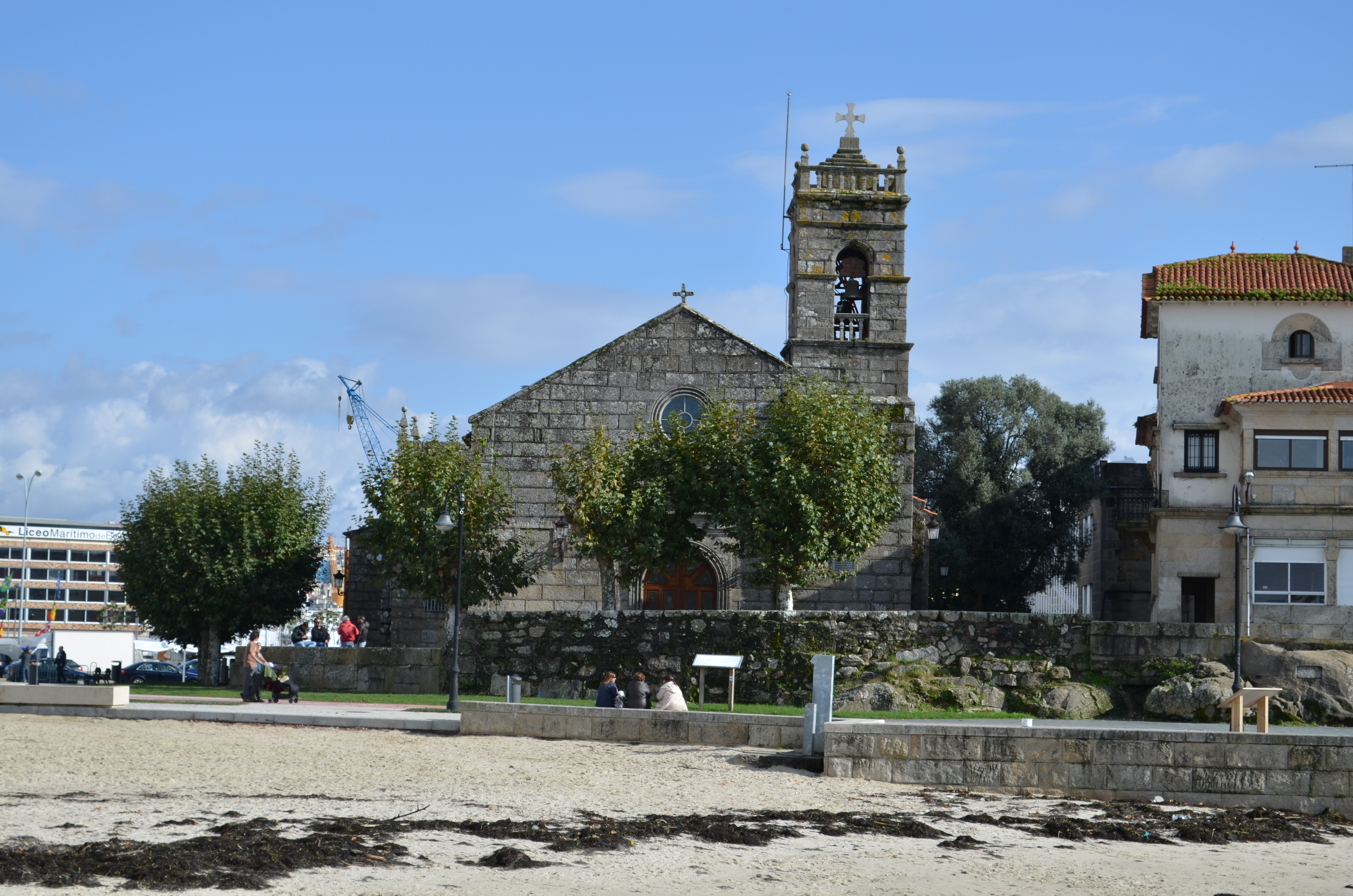 2014-11-09 - Iglesa De San Miguel - Bouzas - Vigo - Spain (5)